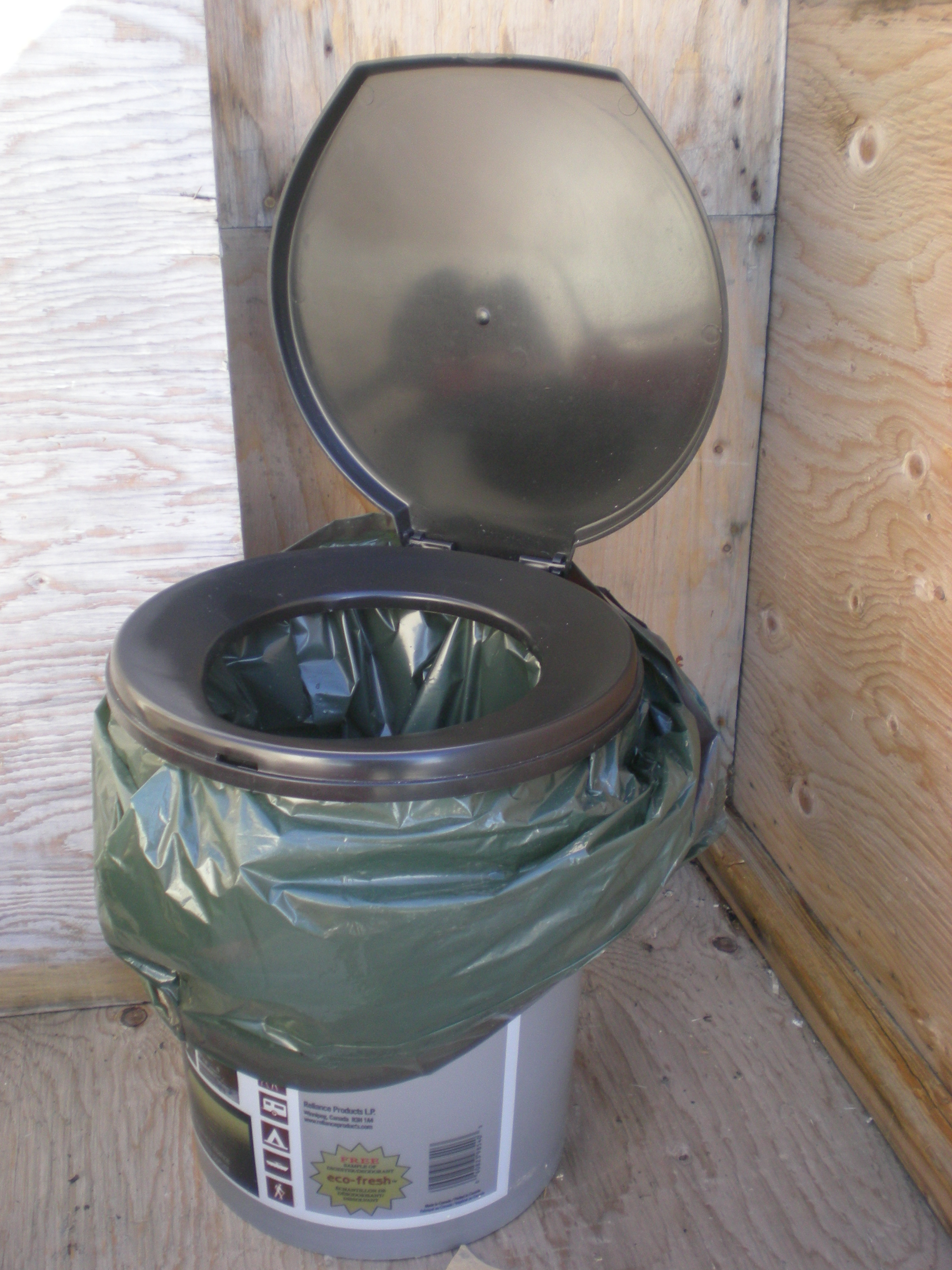 A modern plastic honey bucket